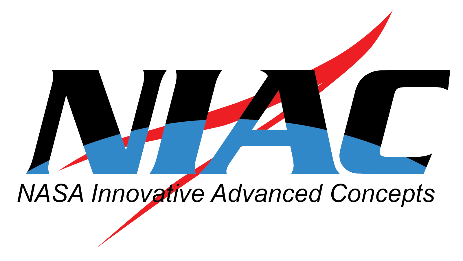 NIAC LOGO